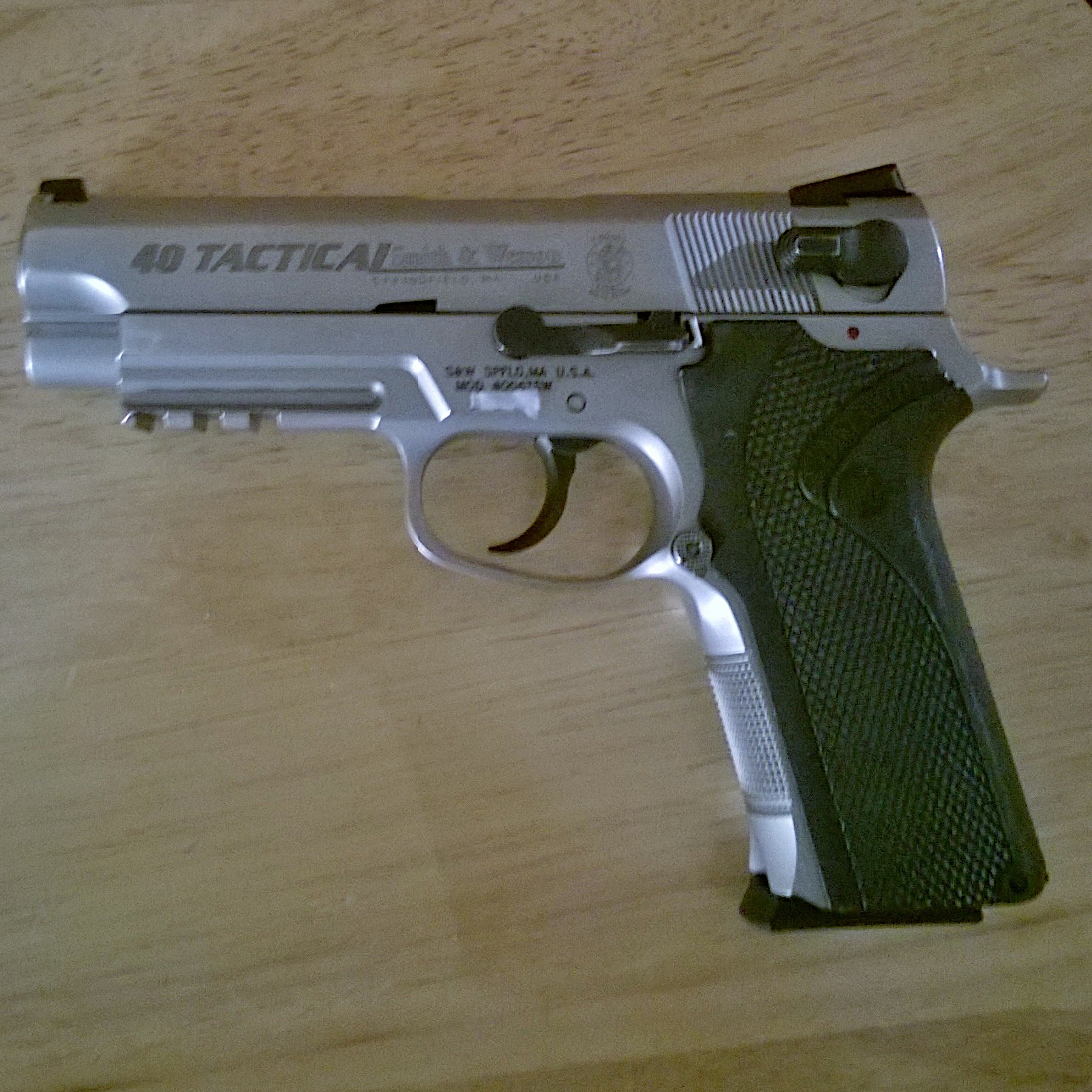 This pistol was originally with the California Highway Patrol. Was manufactured in 2006.